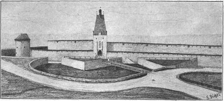 Linzer Gate in Freistadt about 1700